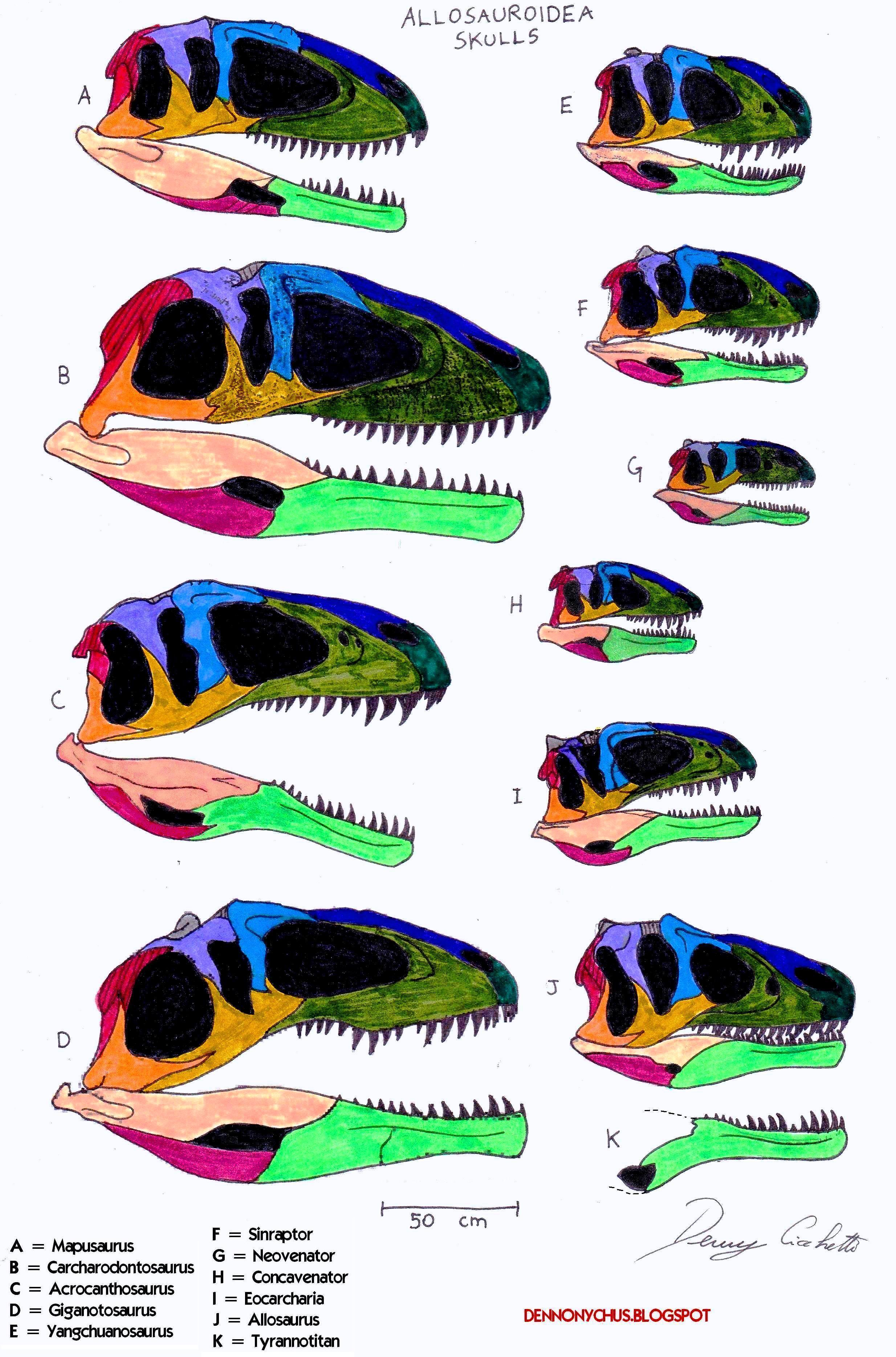 Allosauroidea skull comparison